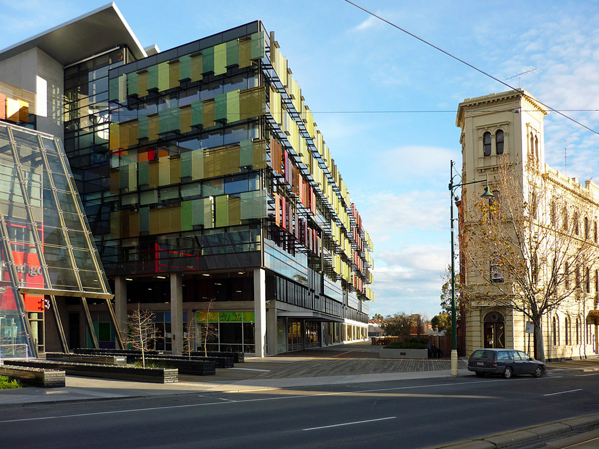 Bendigo offices